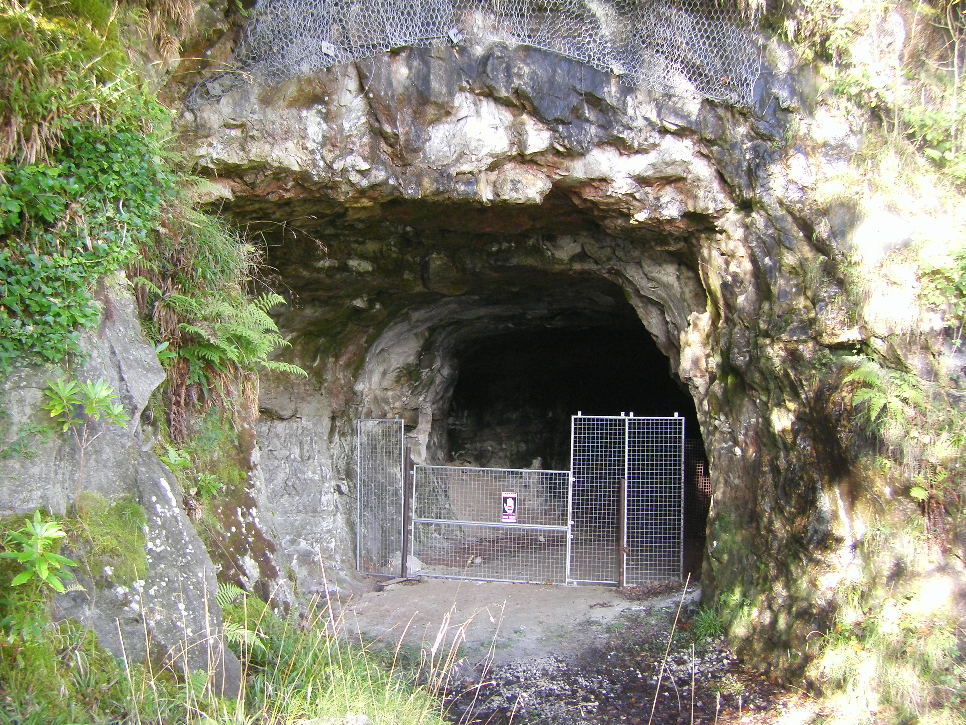 A fenced off Adit No.7, Lochaline Sand Mine